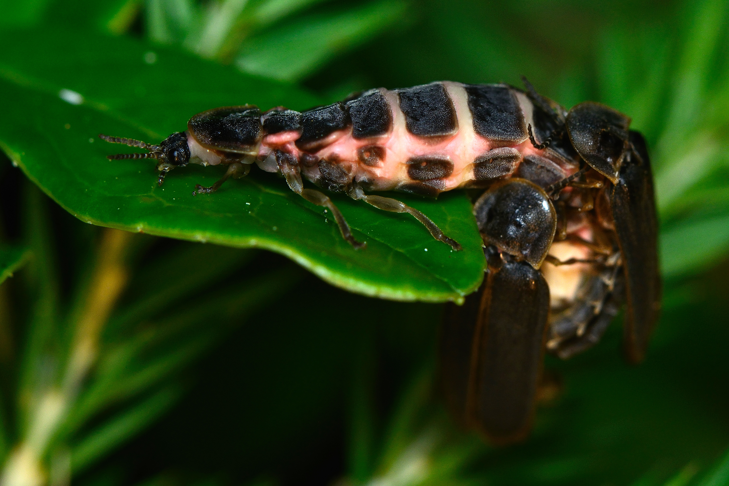 Female and two male glow worms (Lampyris noctiluca) mating. An original set of pictures and video is here .